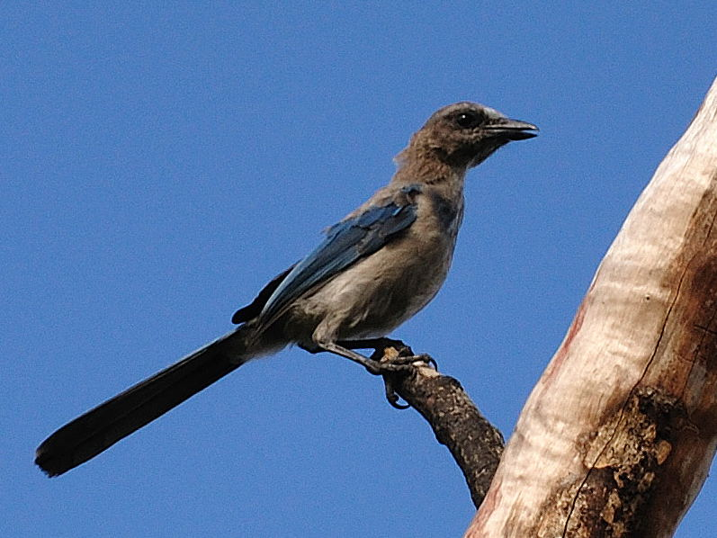 Florida Scrub Jay, juvenile, Ocala National Forest, Juniper Springs Prairie, Florida